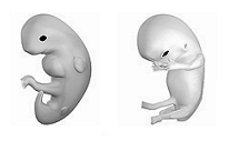 This is merely a combination of two images already uploaded to Wikimedia.